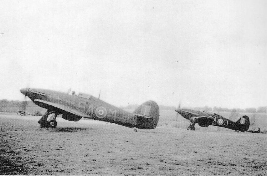 No. 486 Squadron RNZAF Hawker Hurricane nightfighters, Image have previously been published in 'Beware the Wild Winds' (see 486 Squadron page for more details).